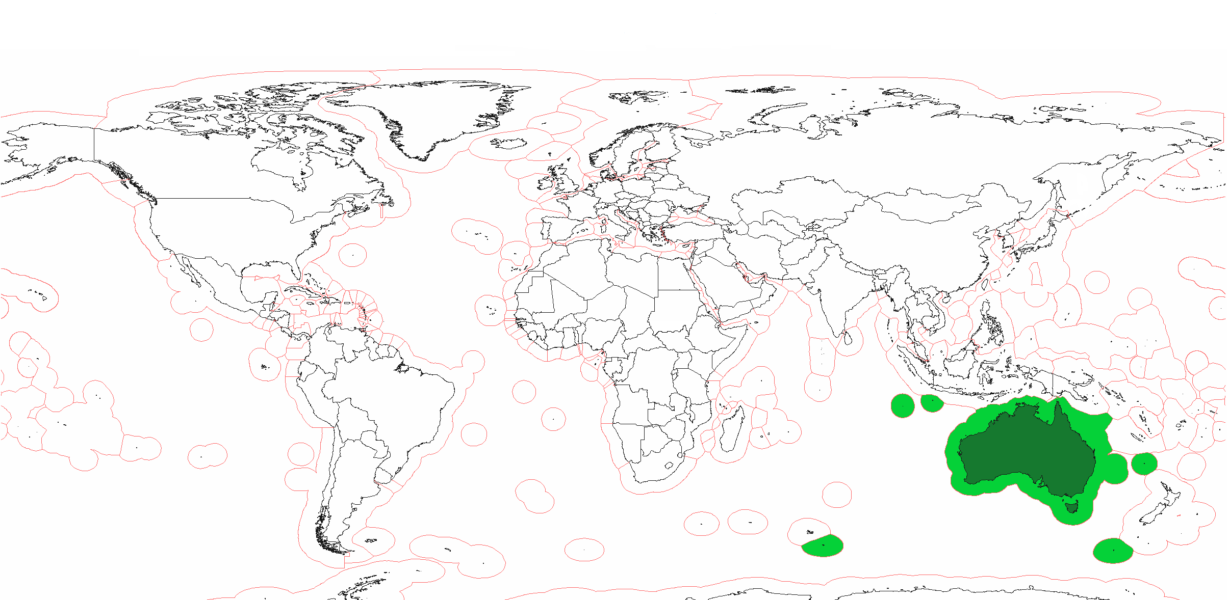 Australias's Exclusive Economic Zones